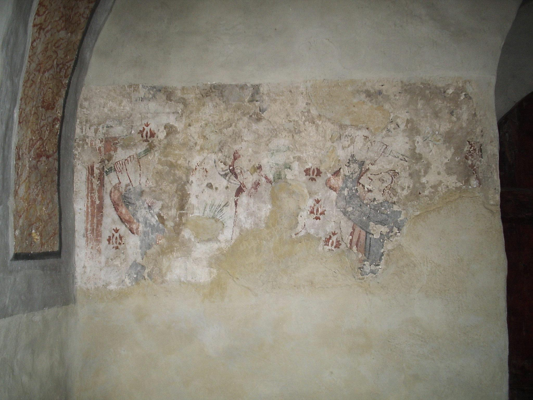 Photo by Harri Blomberg.